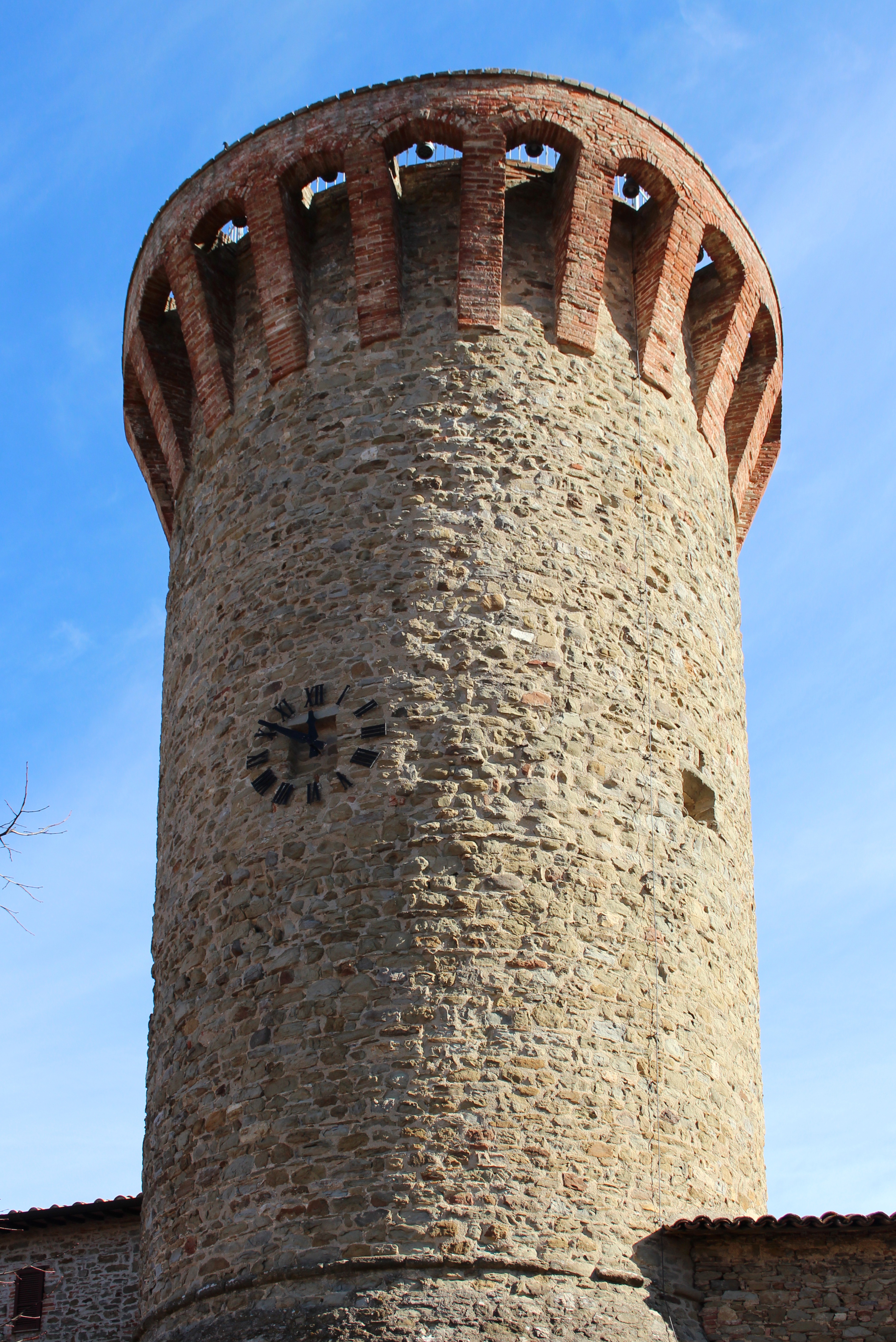 Torre cilindrica, Castiglion Fosco, hamlet of Piegaro, Province of Perugia, Umbria, Italy